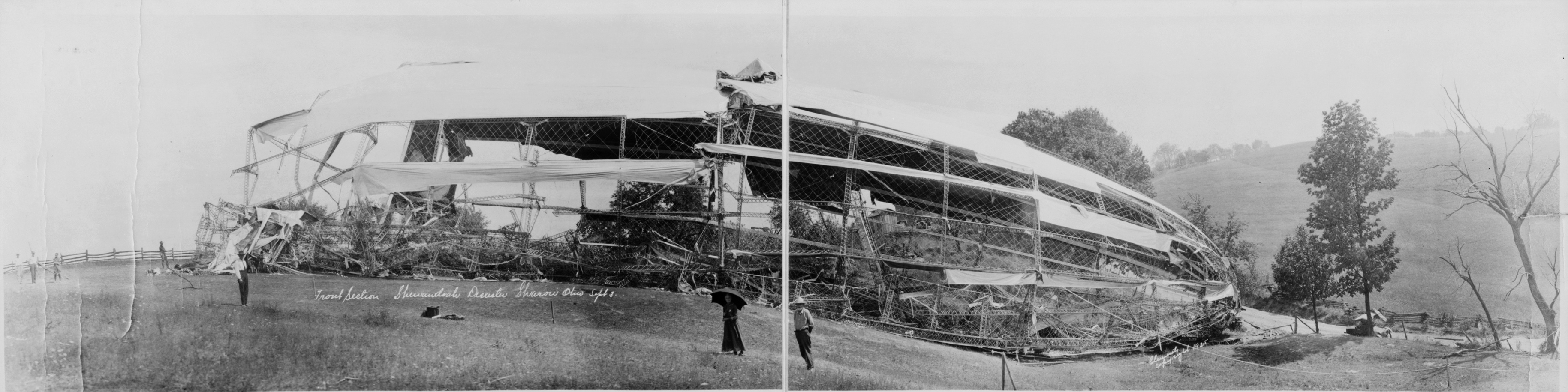 Front Section, Shenandoah disaster, September 3, 1925. R. S. Clements, gelatin silver print; 9 x 37.5 in. PAN US GEOG - Ohio, no. 25 (E size) P&P.